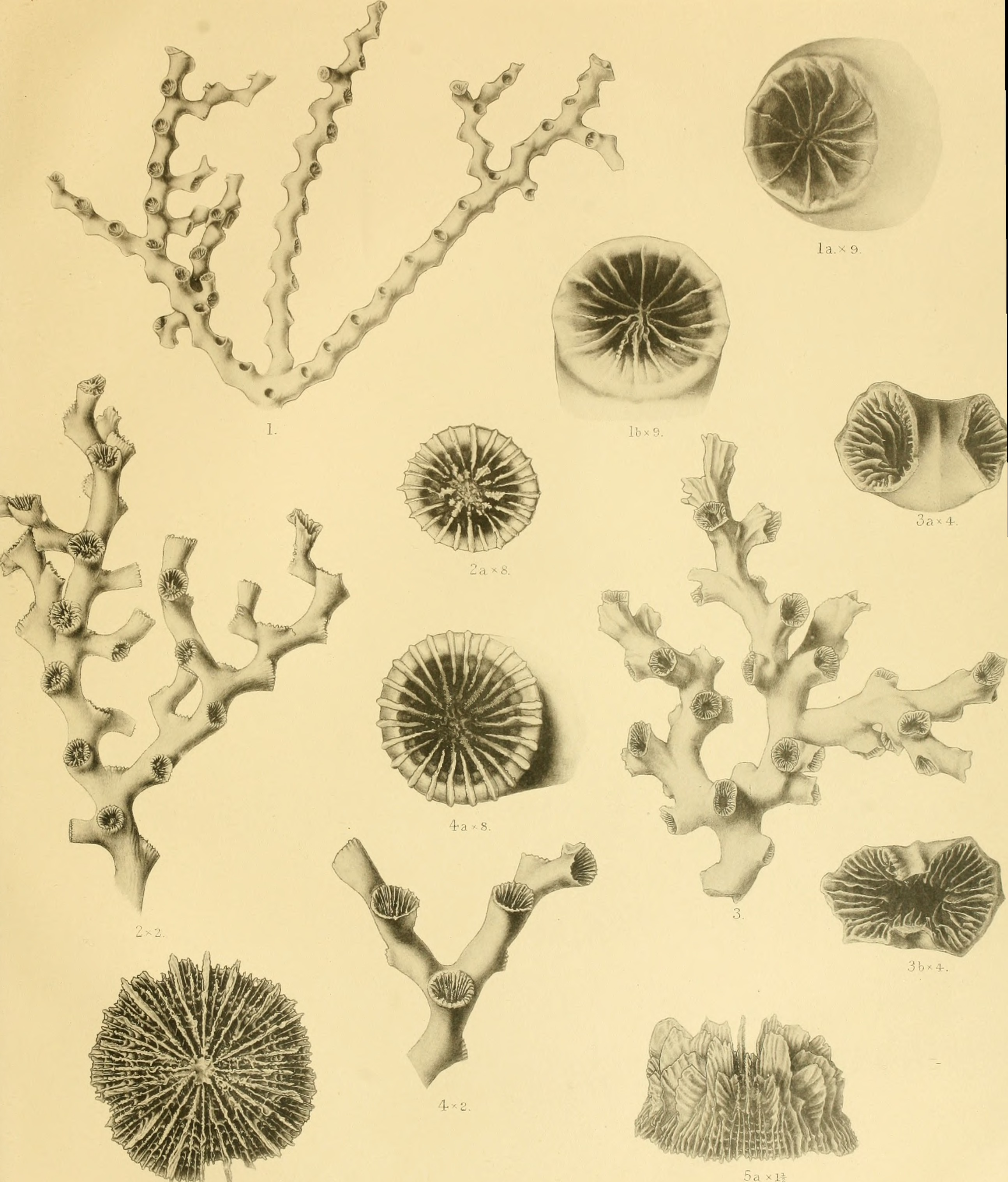 Title: An account of the deep-sea Madreporaria collected by the Royal Indian Marine Survey ship Investigator Year: 1898 (1890s) Authors: Alcock, A. (Alfred), 1859-1933 Subjects: Investigator (Marine survey ship); Scleractinia Publisher: Calcutta : Printed by order of the Trustees of the Indian Museum (by Baptist Mission Press) Text Appearing Before Image: Investigatop Deep-sea Madr-epoparia. Plate E Text Appearing After Image: 5» jj 1. Lophohelia investigatopis^ 2. Cyathohelia fopmosa. 3 SoleaosiTulia jeffreyi. 4 Amphihelia mopesbyi scMondui 8cA,c,ck)wdiaiyad 5- Bathjacti's stephanus.